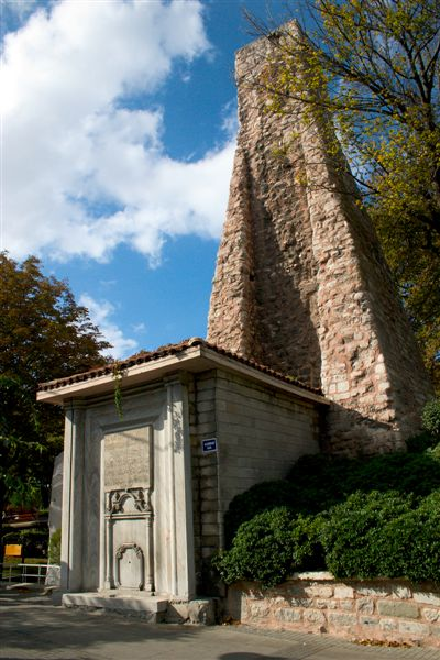 The entrance to the Basilica Cistern in Istanbul, Turkey.